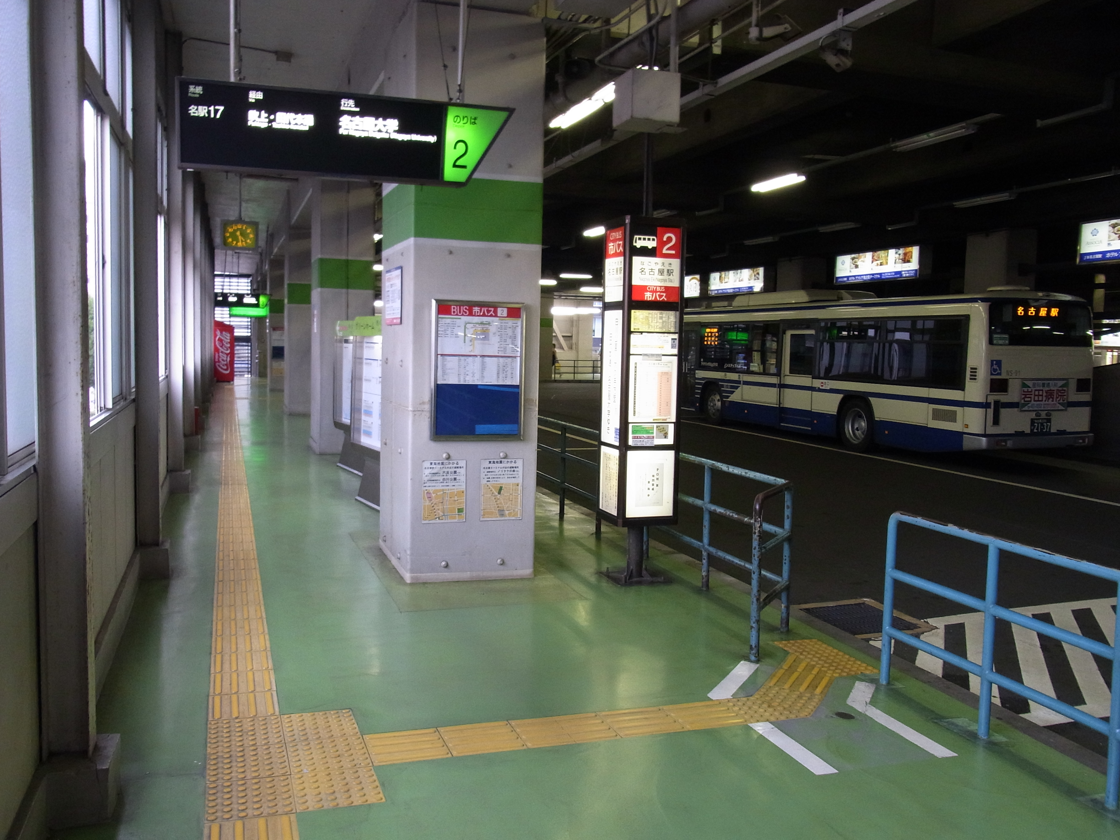 Bus stop for Nagoya City Bus at Nagoya Station Bus Terminal